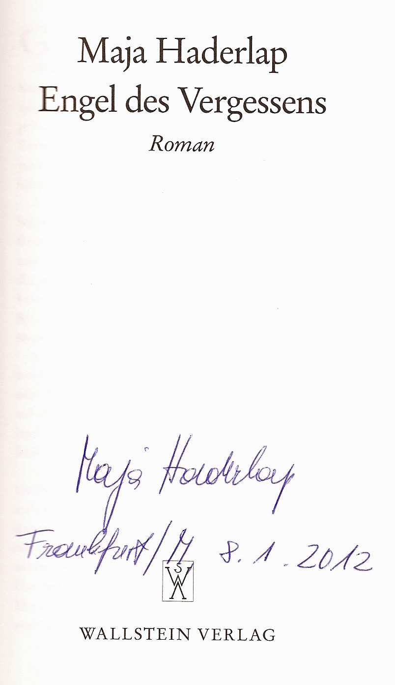 Autograph from Maja Haderlap, austrian writer and Bachmann-Award-Winner 2011.